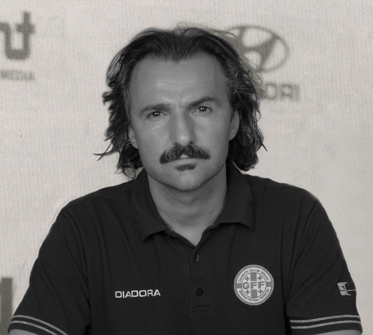 my own work